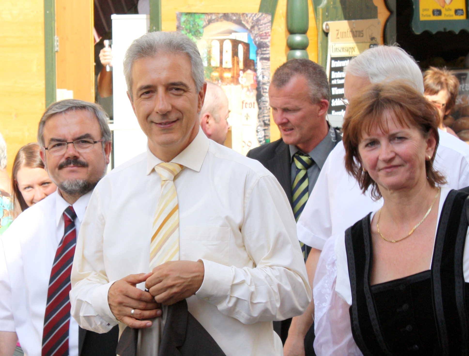 Stanislaw Tillich (center), CDU, PM of Saxony; Heidrun Hiemer (right), CDU, Mayor of Schwarzenberg/Erzgeb.; Frank Vogel (left), Landrat of Erzgebirgskreis.